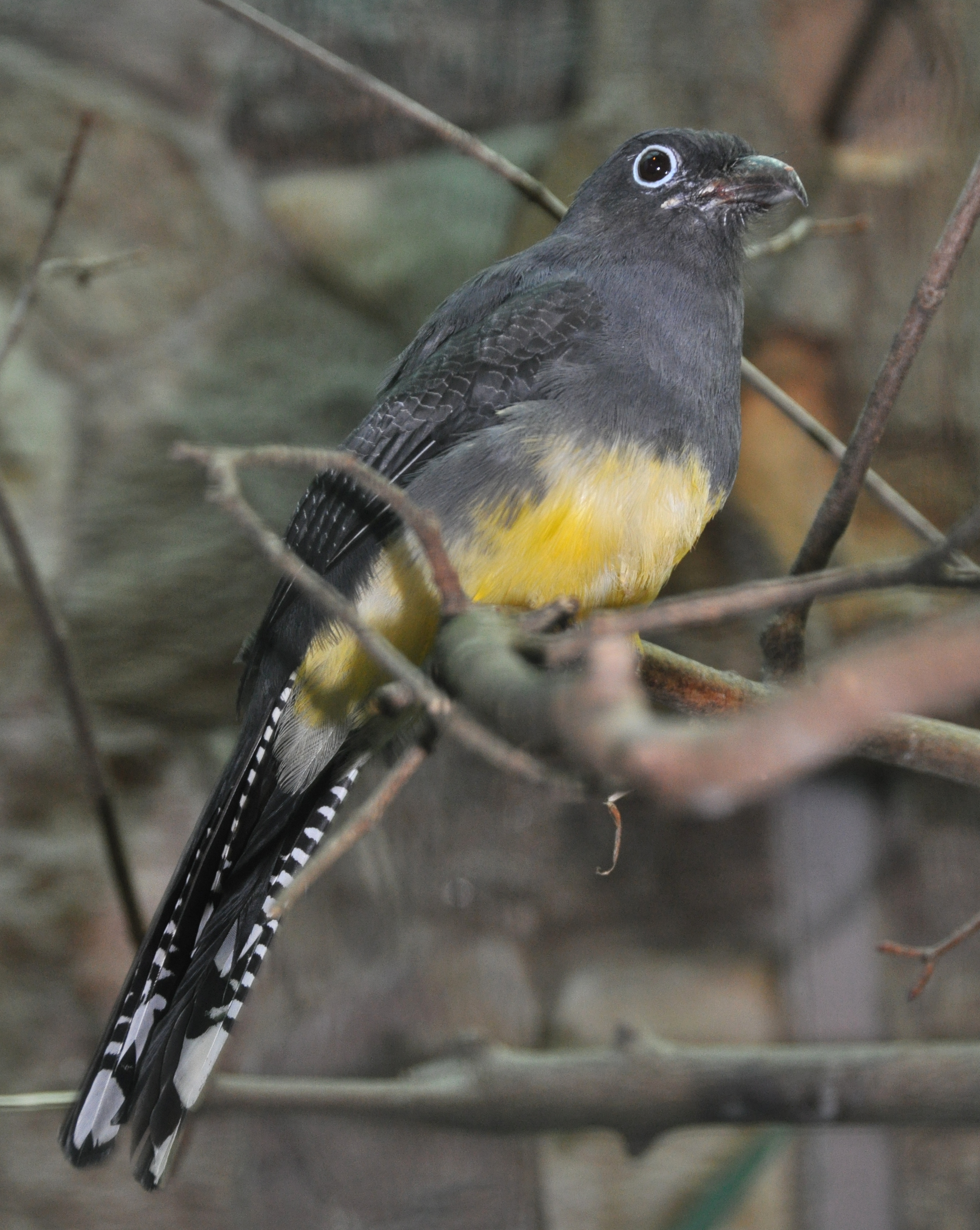 White-tailed Trogon (Trogon viridis) in the Walsrode Bird Park, Germany.